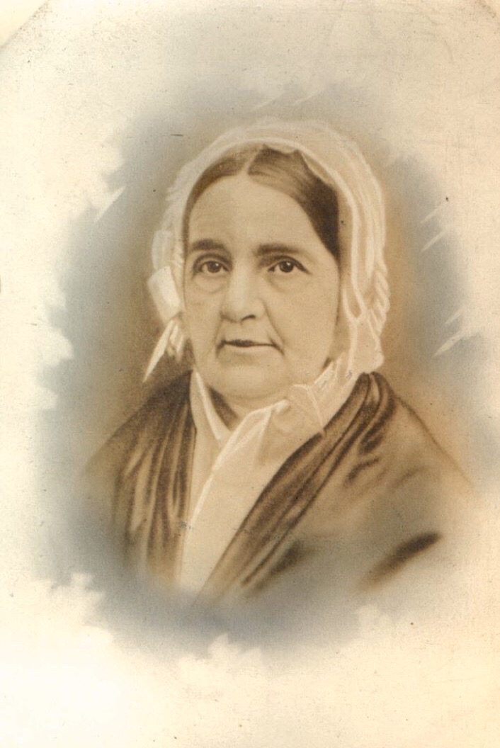 Portrait of Third Wife of Gassaway Watkins